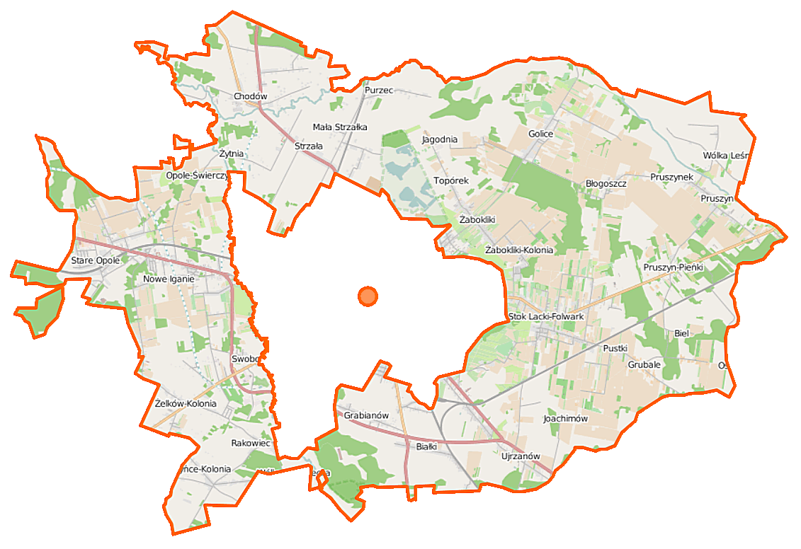 Map of Gmina Siedlce, Poland This map of Siedlce (gmina wiejska) was created from OpenStreetMap project data, collected by the community. This map may be incomplete, and may contain errors. Don't rely solely on it for navigation. Border coordinates52.236822.1340←↕→22.445152.1061